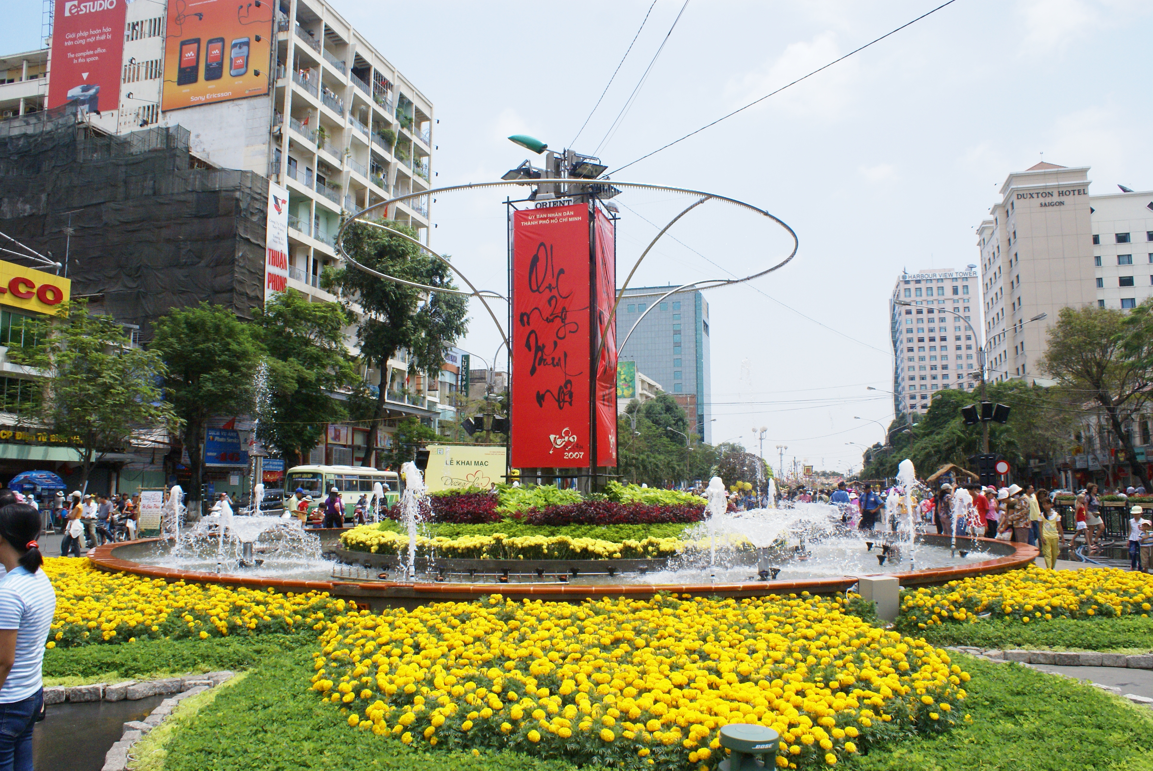 Tet decorations in Ho Chi Minh City, 2007.